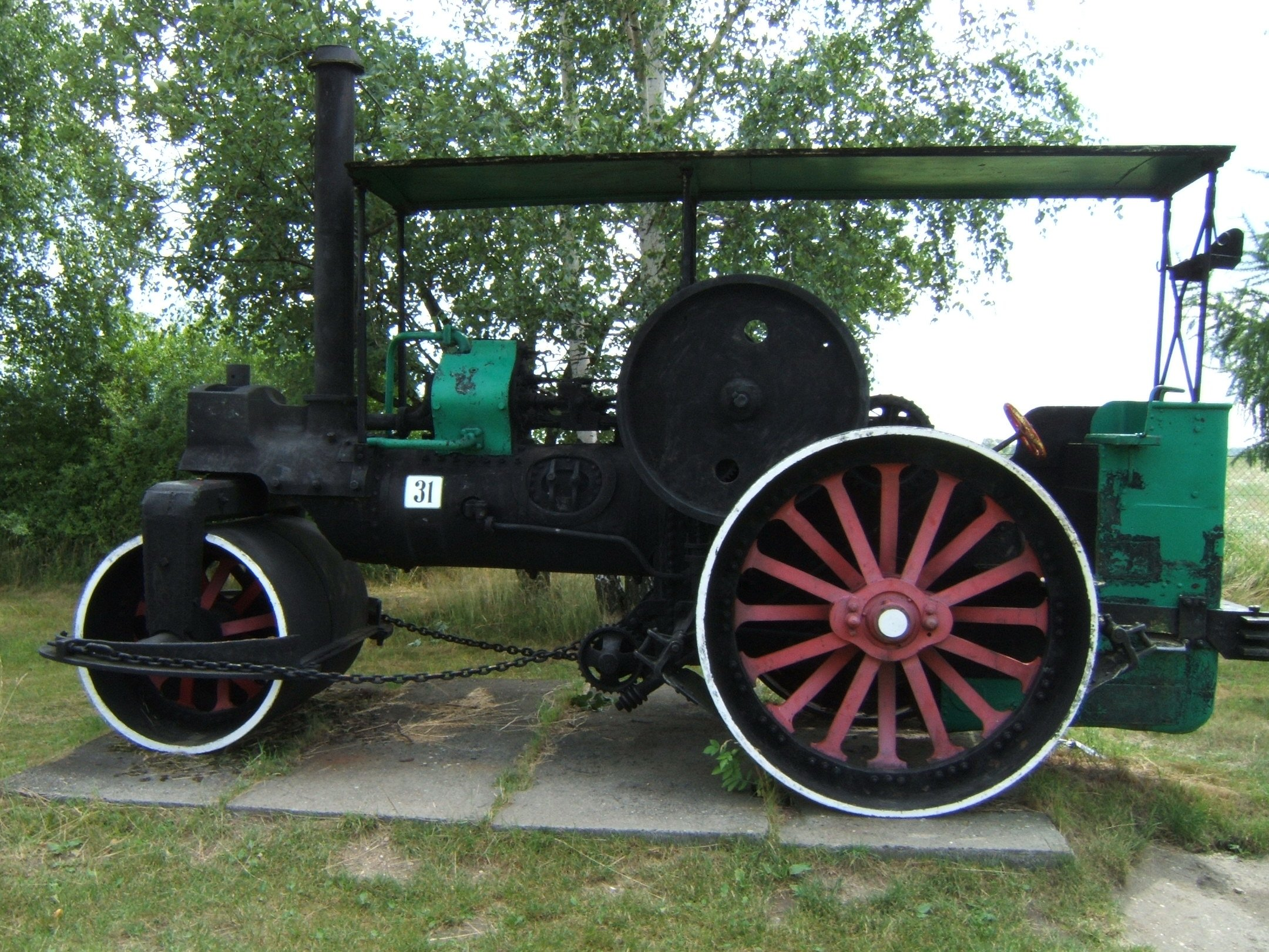 Steam roller produced in 1928 Exhibit of Steam Machines and Locomotives Heritage Park by historic mine in Tarnowskie Góry